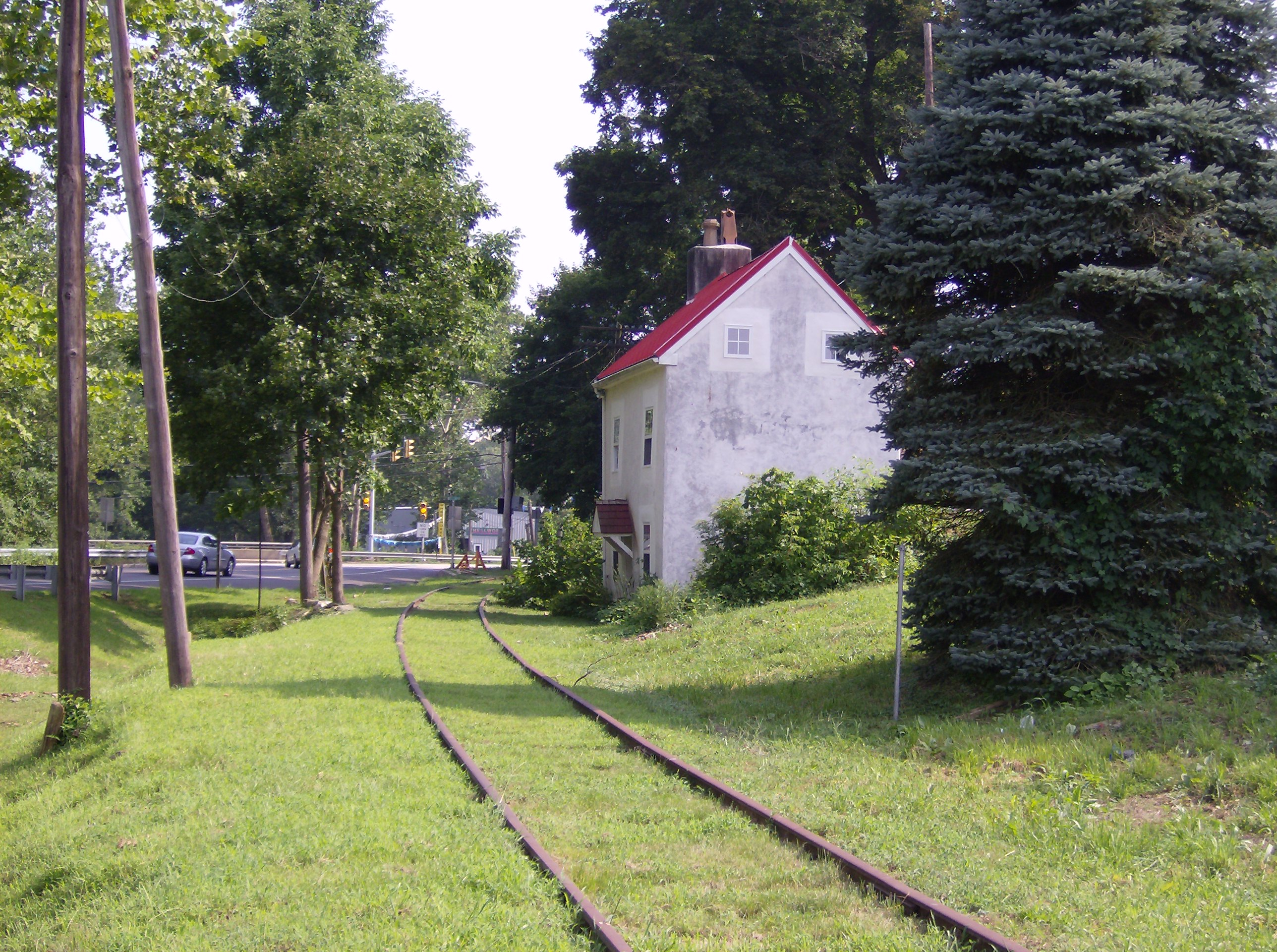 Dormant railroad tracks and a private residence that appears to be an old station house near the former site of Huntingdon Valley station on the former SEPTA R8 Fox Chase/Newtown Line.